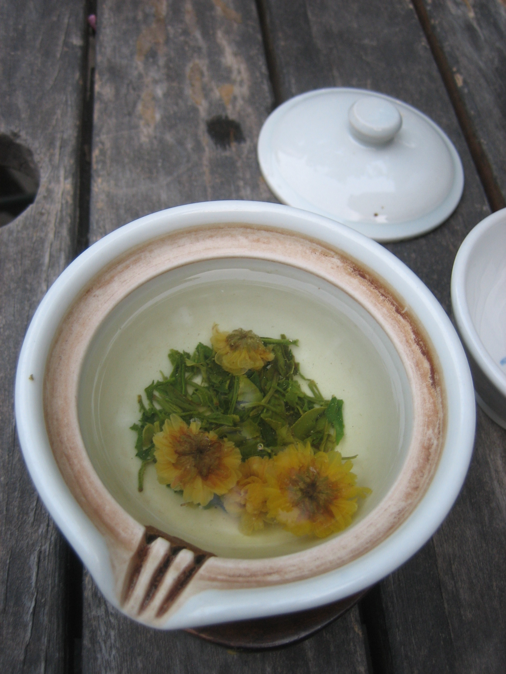 Korean chrysanthemum tea-Gukhwacha